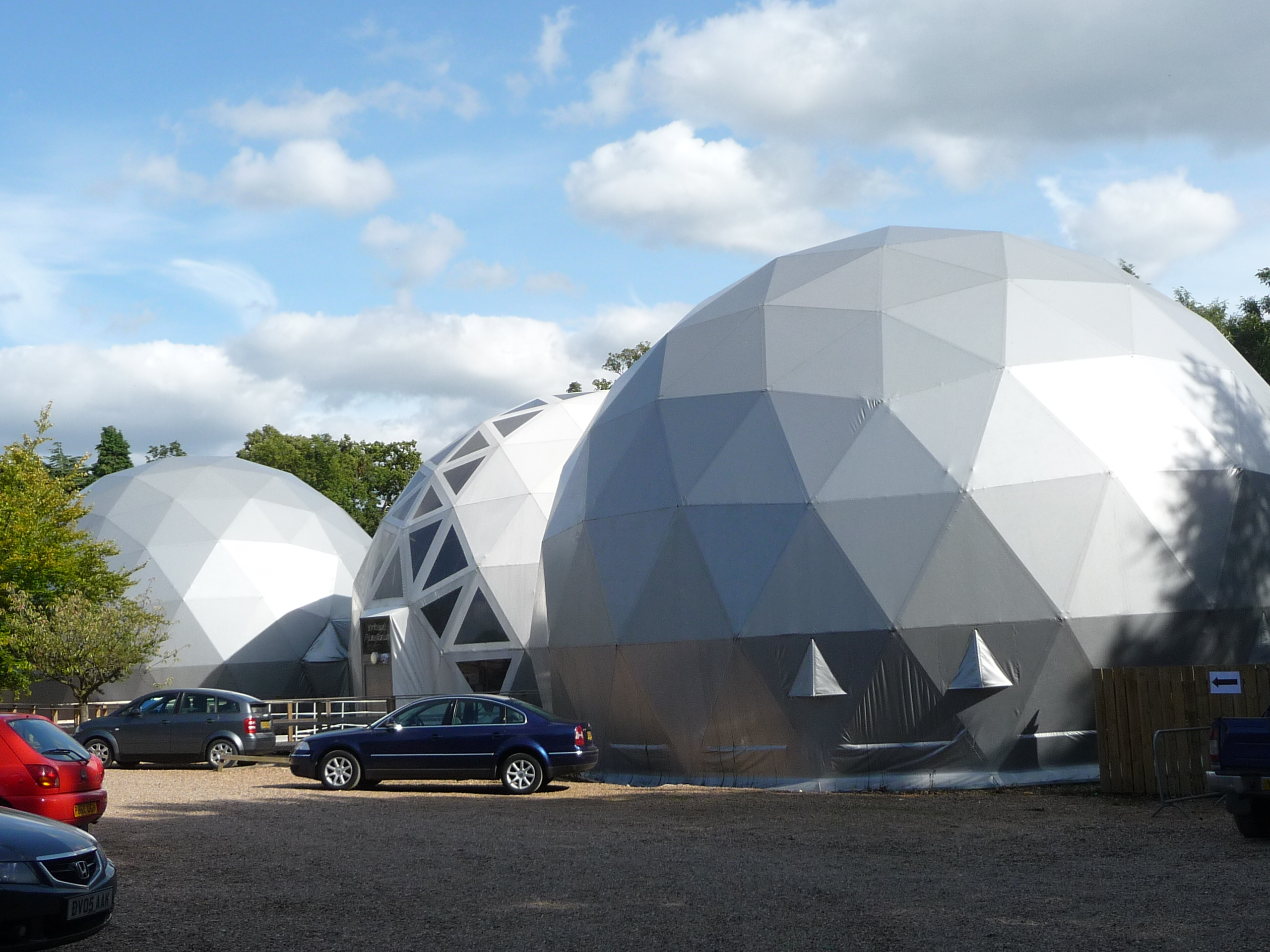 Planetarium near Harewood House in Harewood, West Yorkshire, United Kingdom